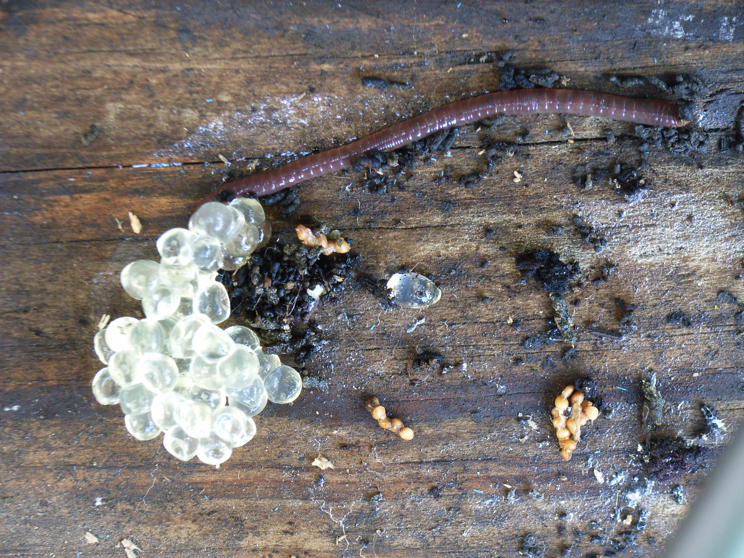 Earthworm with two types of eggs